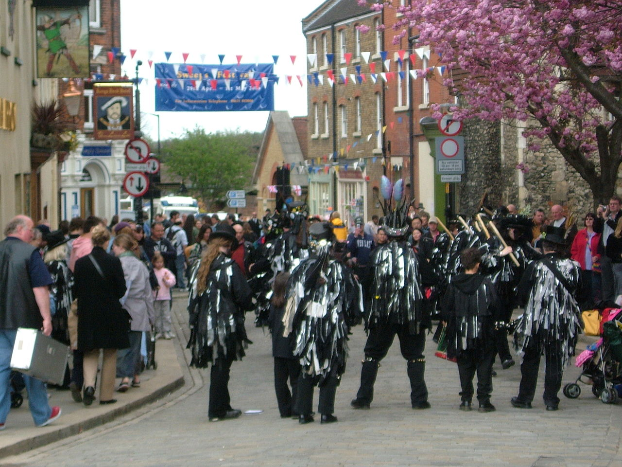 The 2006 Sweeps festival in Rochester in Kent. This Morris side is dancing by the cathedral- behind is Northgate and the Corn exchange. - Google Maps - Google Earth